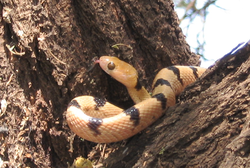 The colubrid Telescopus semiannulatus in an acacia, central Tanzania